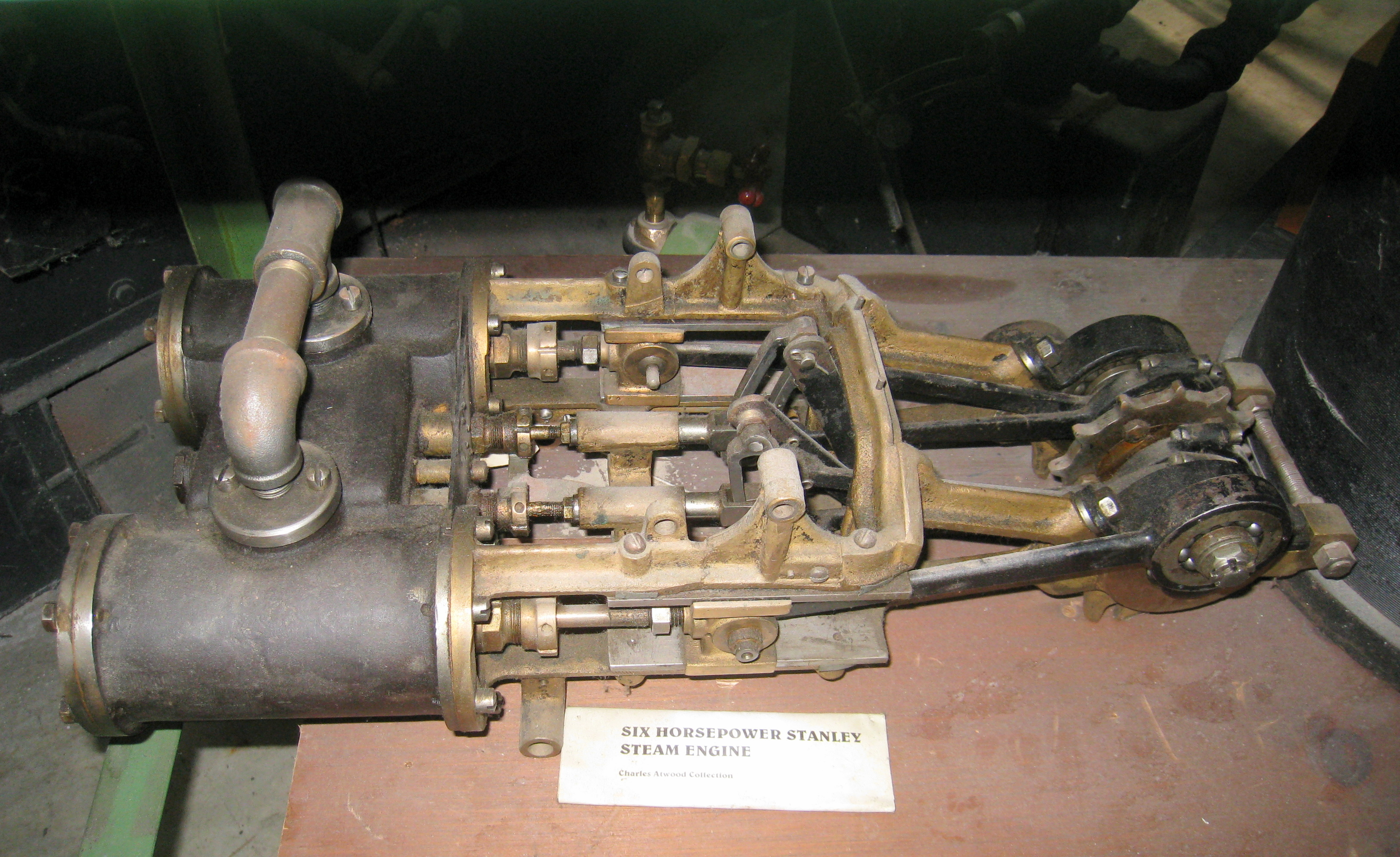 Stanley Steam Engine, 6 horsepower.